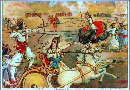 From Baroda Art Gallery